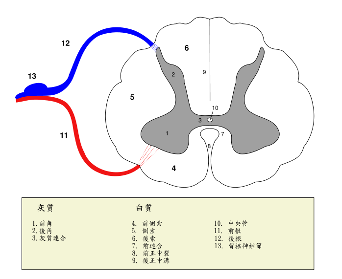 The Chinese version of Image:Medulla spinalis - Section - English.svgImage:Medulla spinalis - Section - English.svg的中文版本